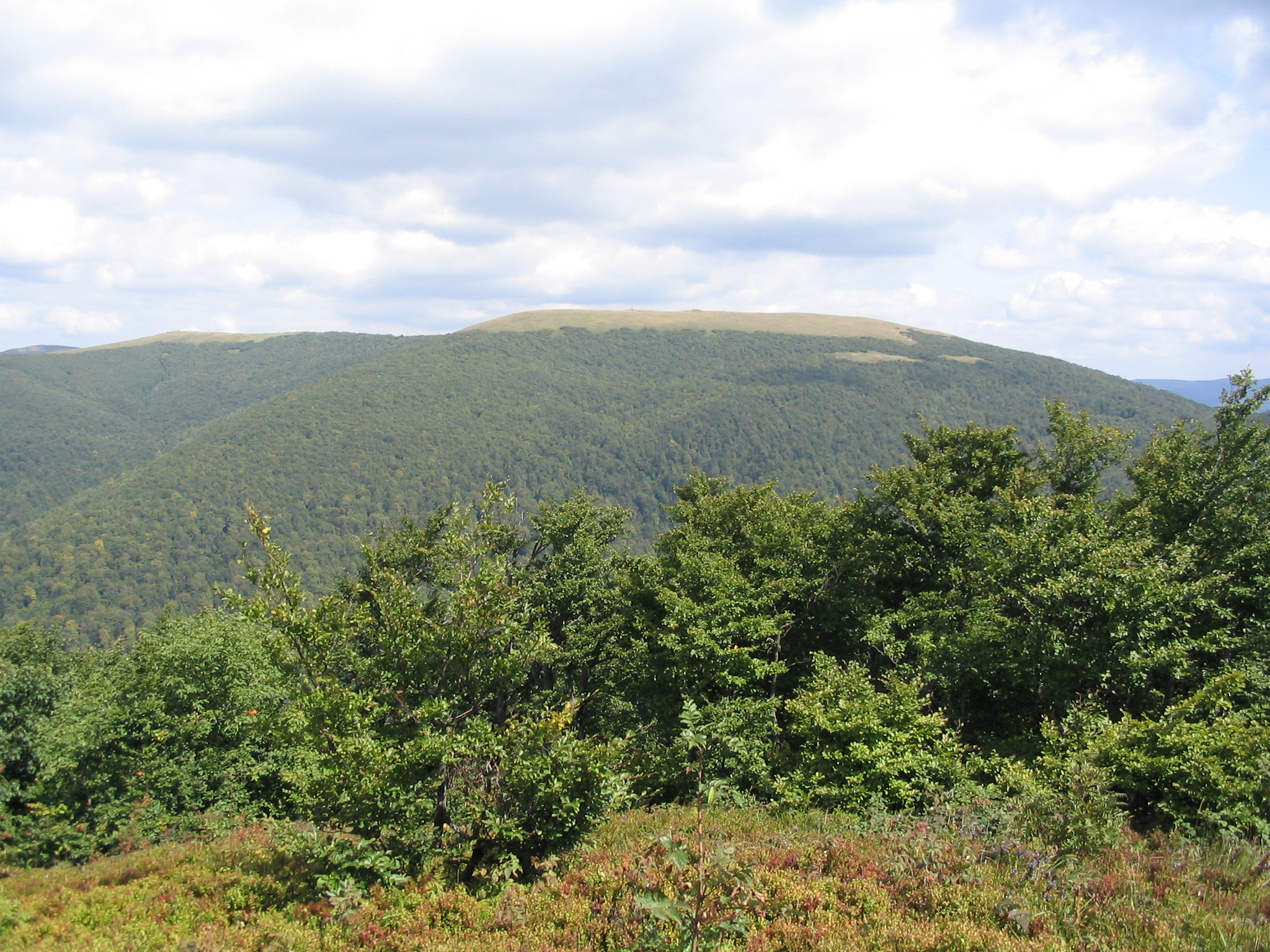 Mont Velka Rawka